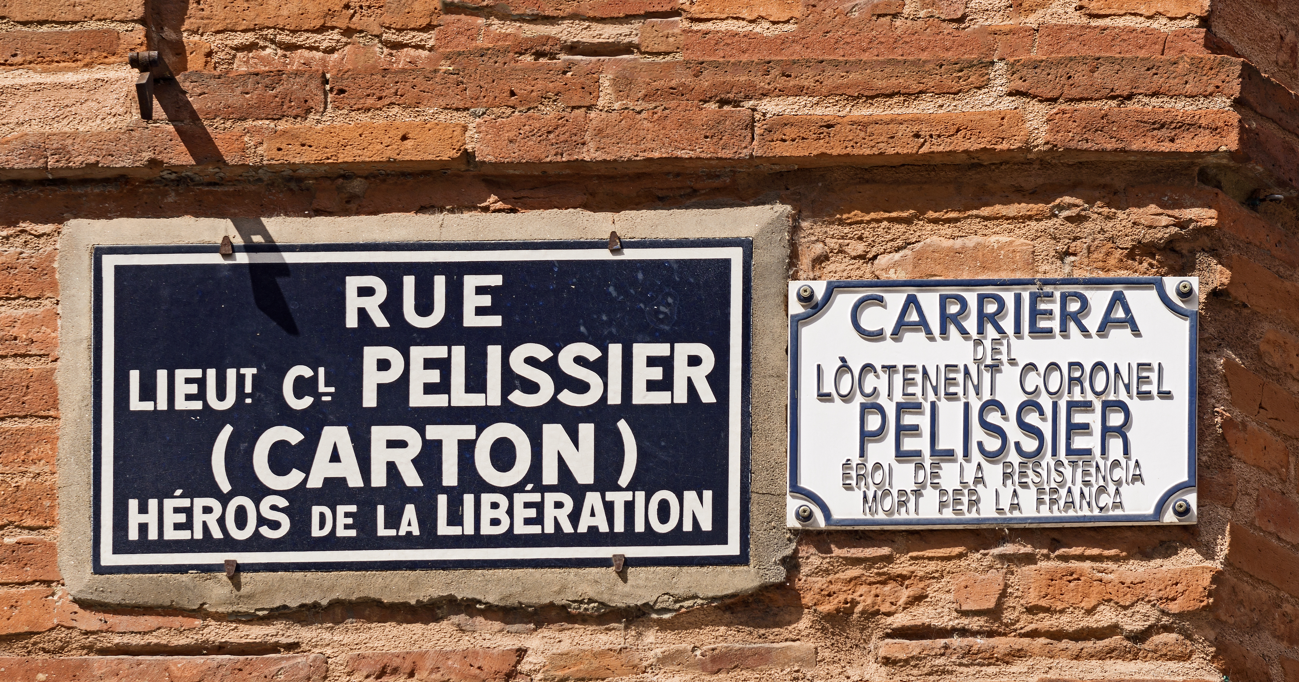 Rue du Lieutenant-Colonel Pélissier in Toulouse. The original street sign from 1948 and, more recently, in Occitan.